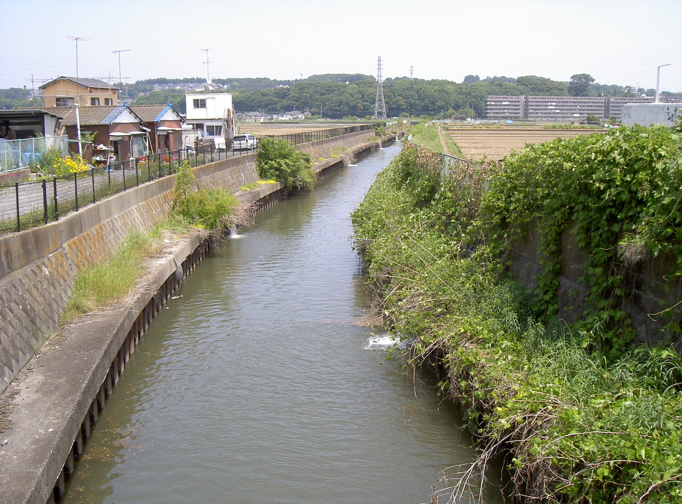 Hatogawa river, between Zama city and Ebina city, Kanagawa prefecture, Japan. ja: 座間市と海老名市の境界を流れる鳩川